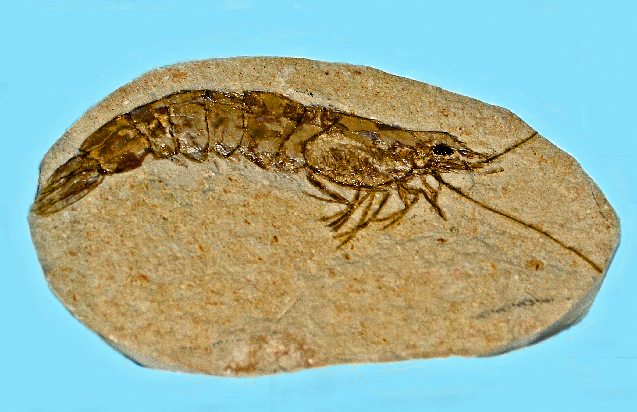 Hakelocaris vavassorii from Lebanon